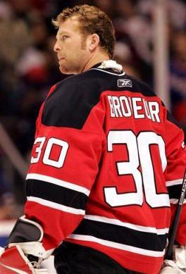 Shot by me at a home game during the 2005-06 NHL playoffs.